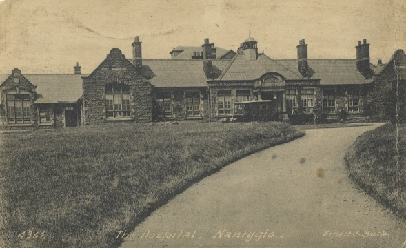 Old postcard of Nanyglo Hospital